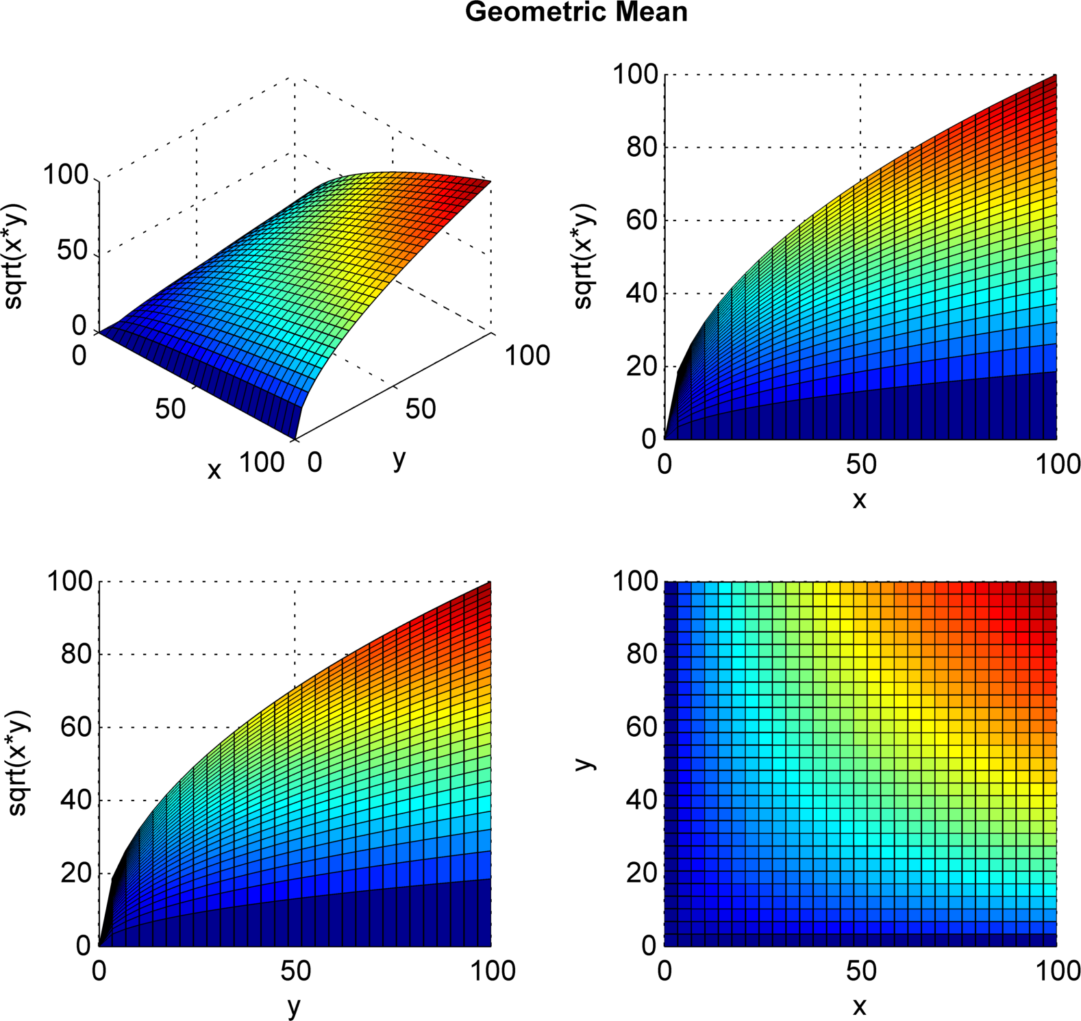 The picture shows the values of the geometric mean between x and y, as x and y go from zero to 100